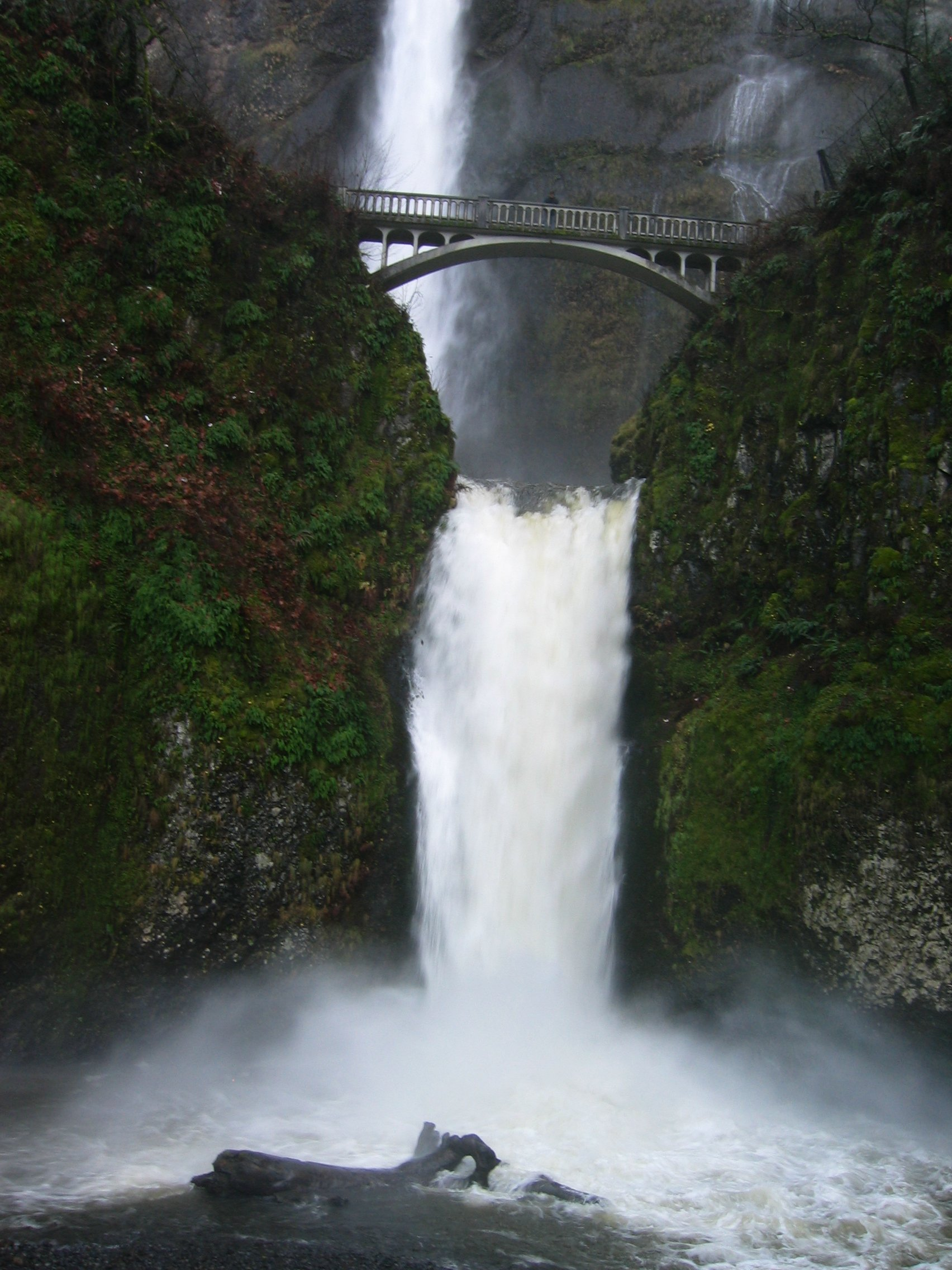 Probably one of the most photographed waterfalls...Multnomah Falls